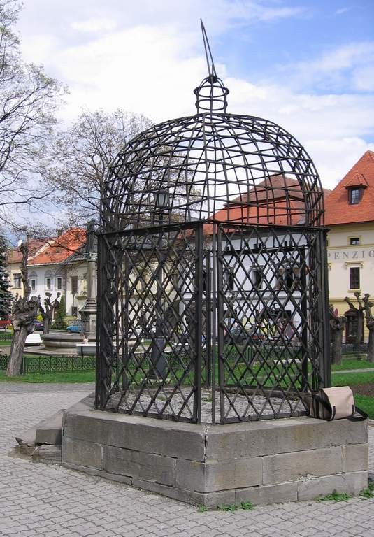 The main square of the oldtown in Levoča - place of punishment (klietka hanby).